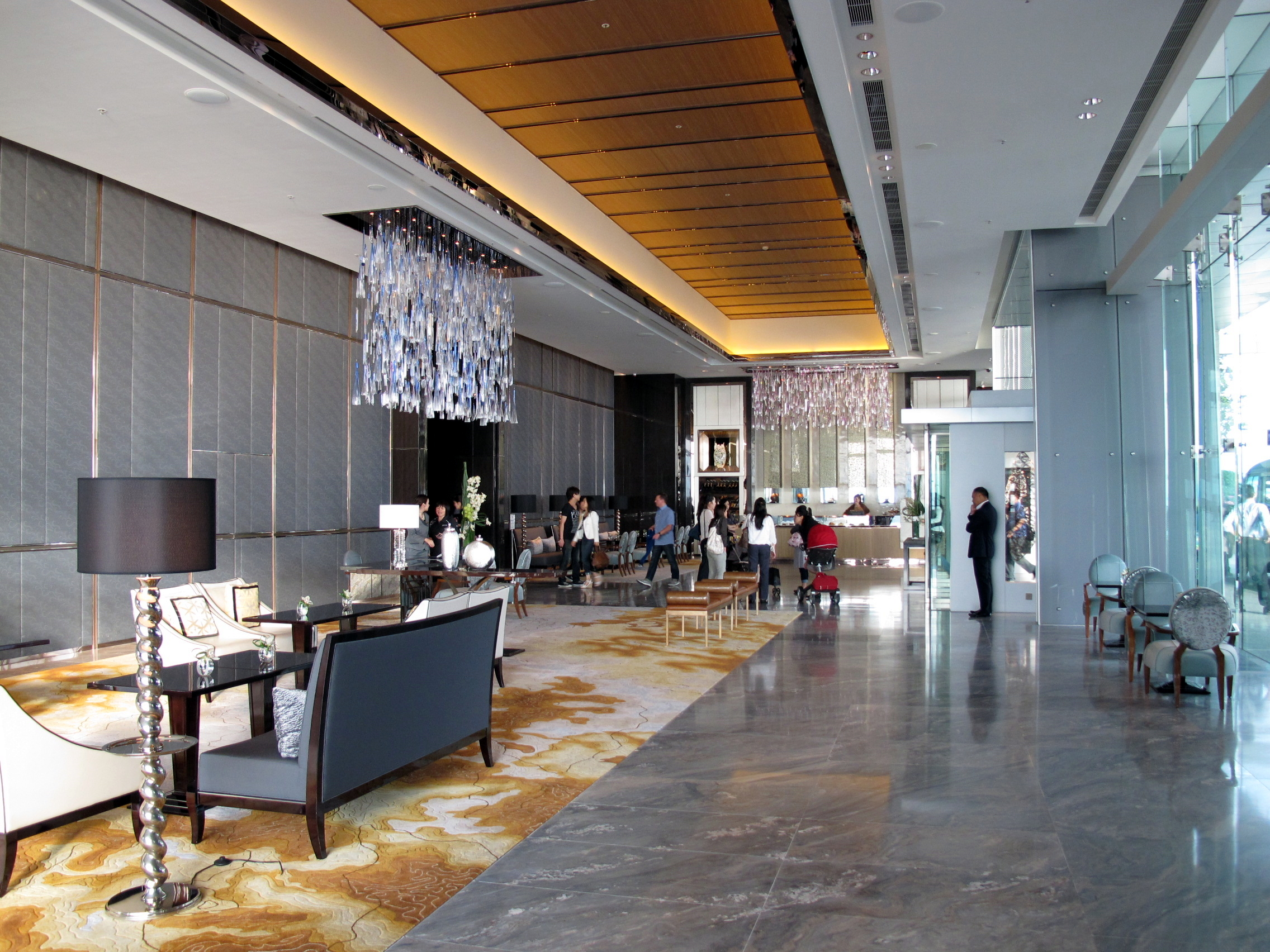 The Ritz-Carlton Hong Kong Level 9 Lobby